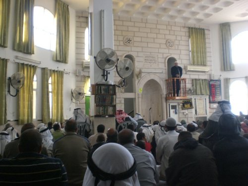 Religion in Israel